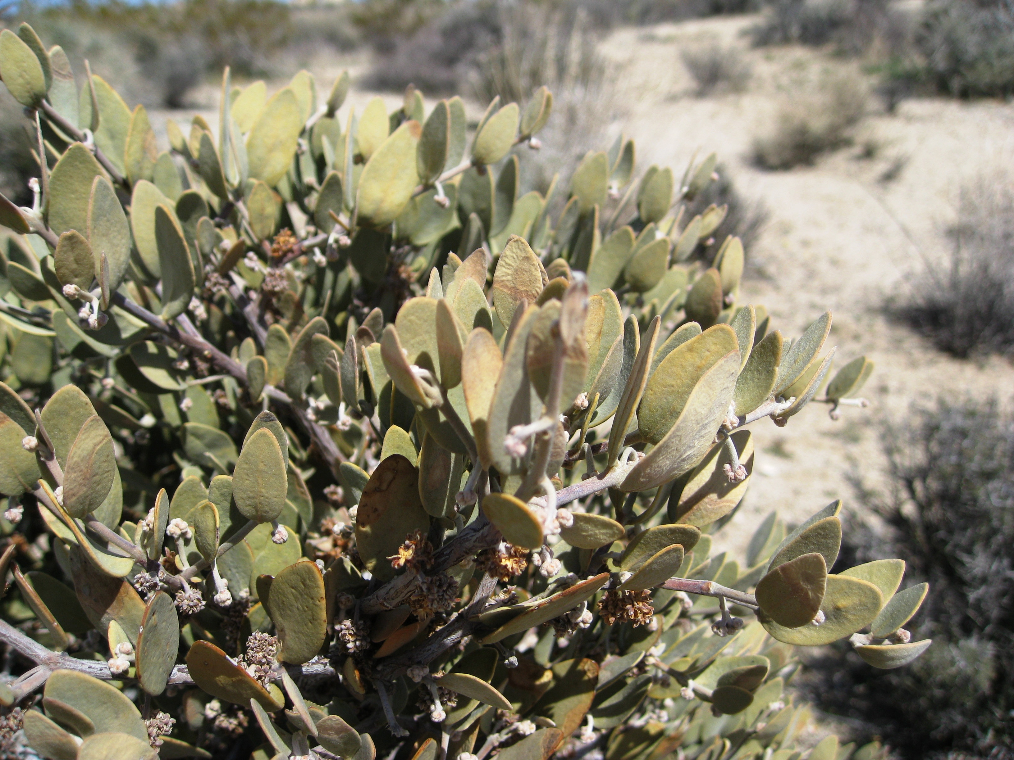 Simmondsia chinensis Jojoba Joshua Tree National Park jtz 052